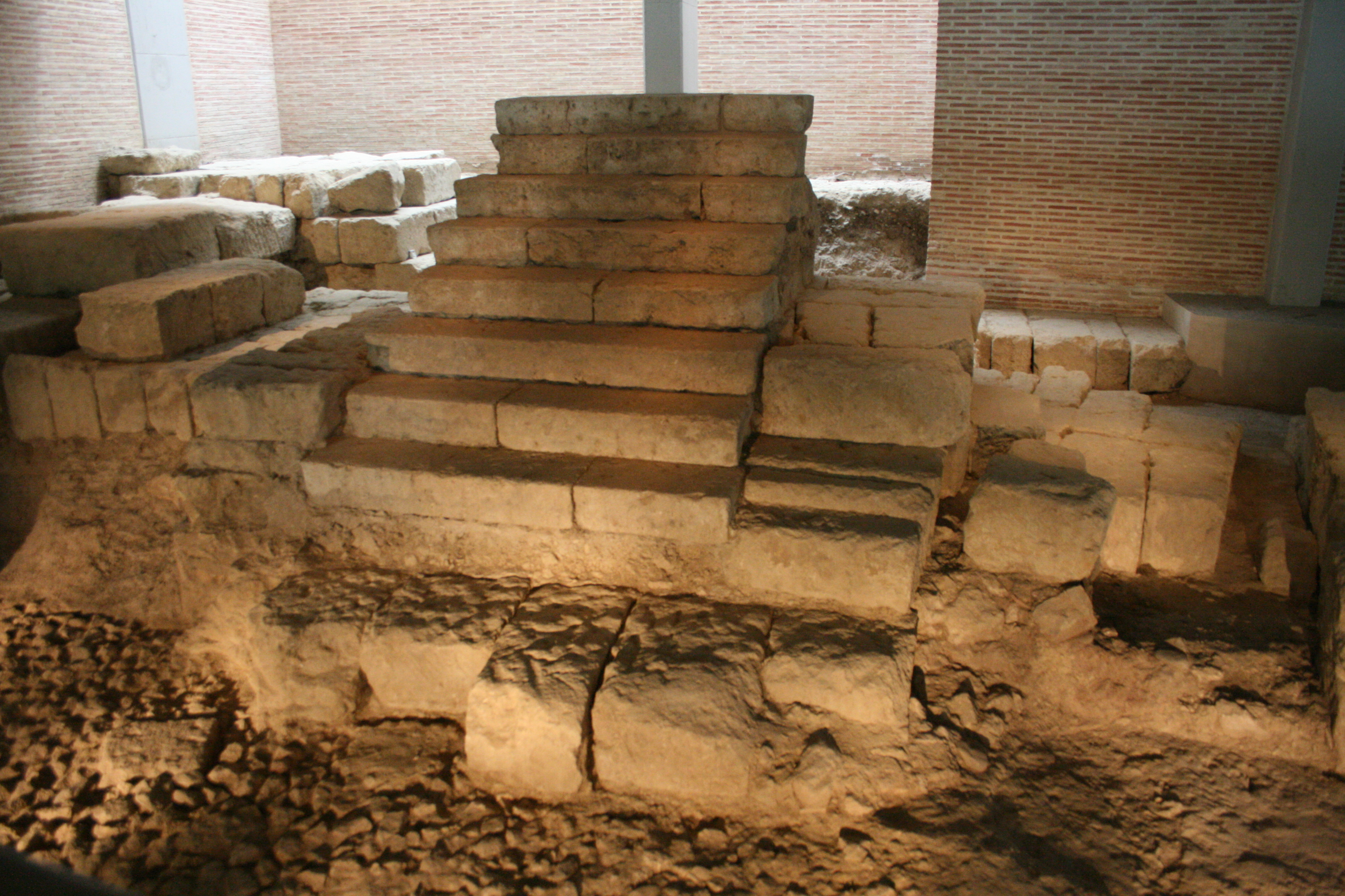 remains of the roman theatre in the Museo Arqueológico y Etnológico of Córdoba, Spain